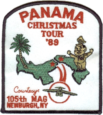 105th Military Airlift Group - Operation Just Cause - 1989 patch